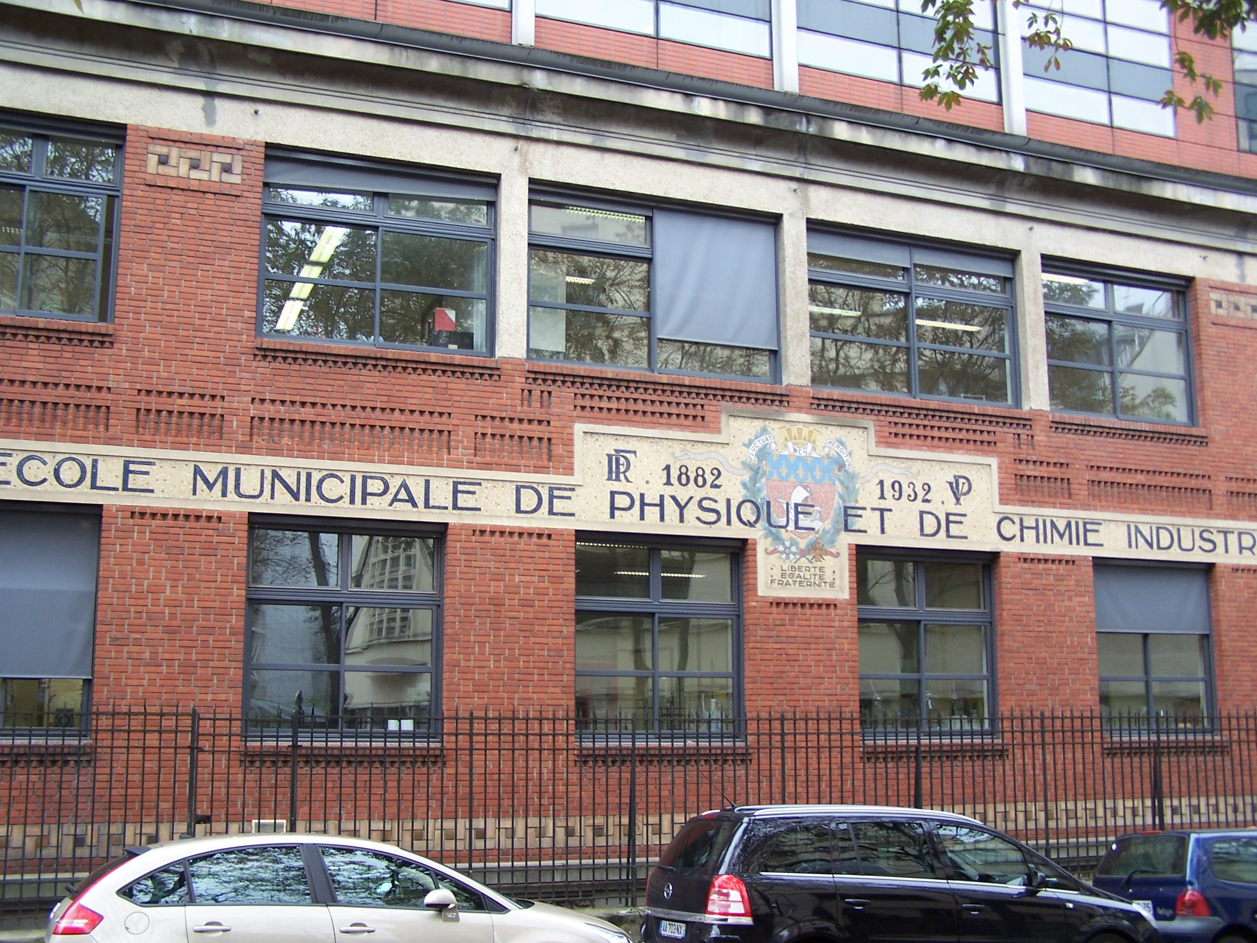 View of the back-wall of the École supérieure de physique et chimie industrielle de la ville de Paris (ESPCI) at place Alfred-Kasler